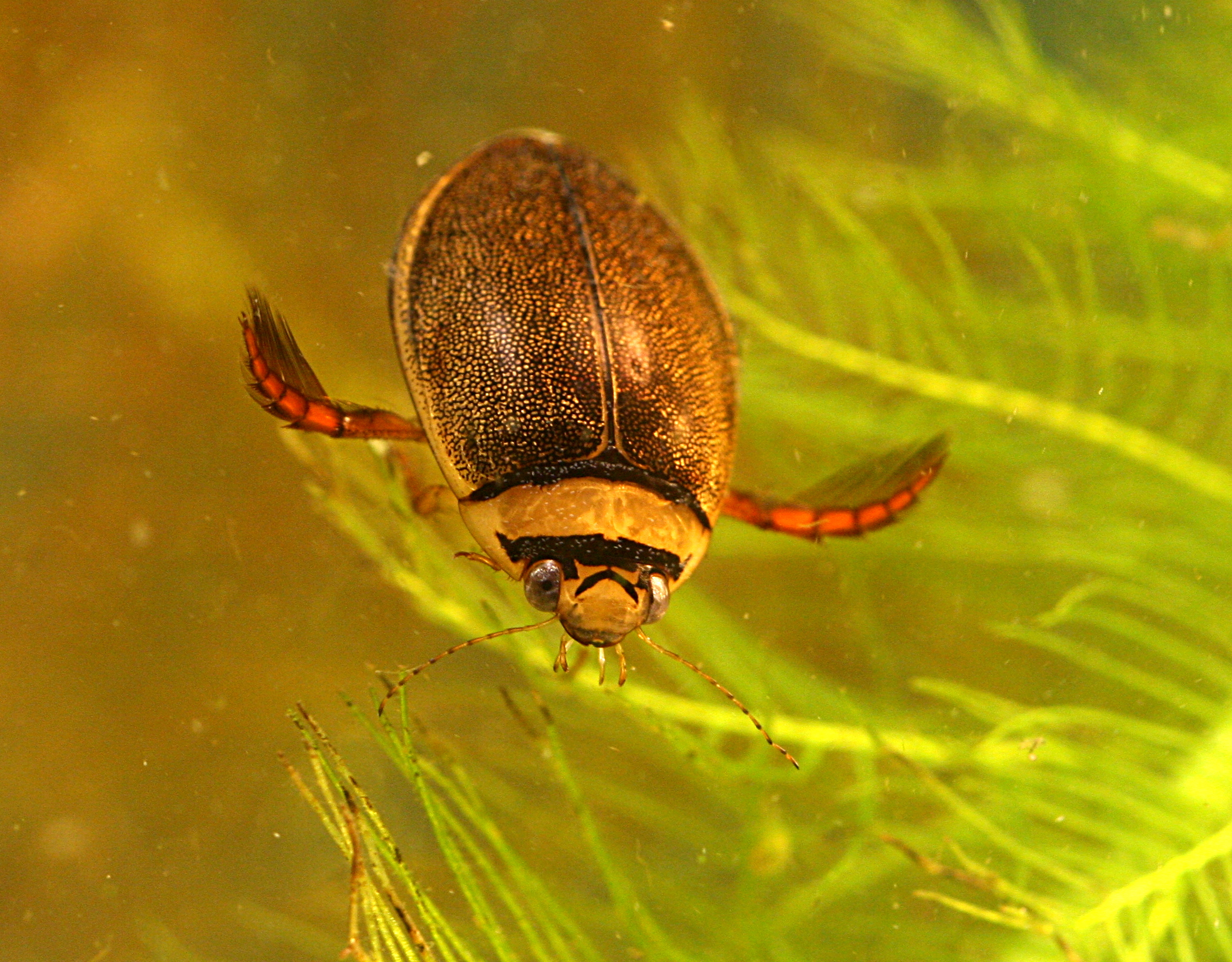 Graphoderus bilineatus collected in NE Slovenia and photographed in an improvised aquarium. Leg. & det. Špela Ambrožič.